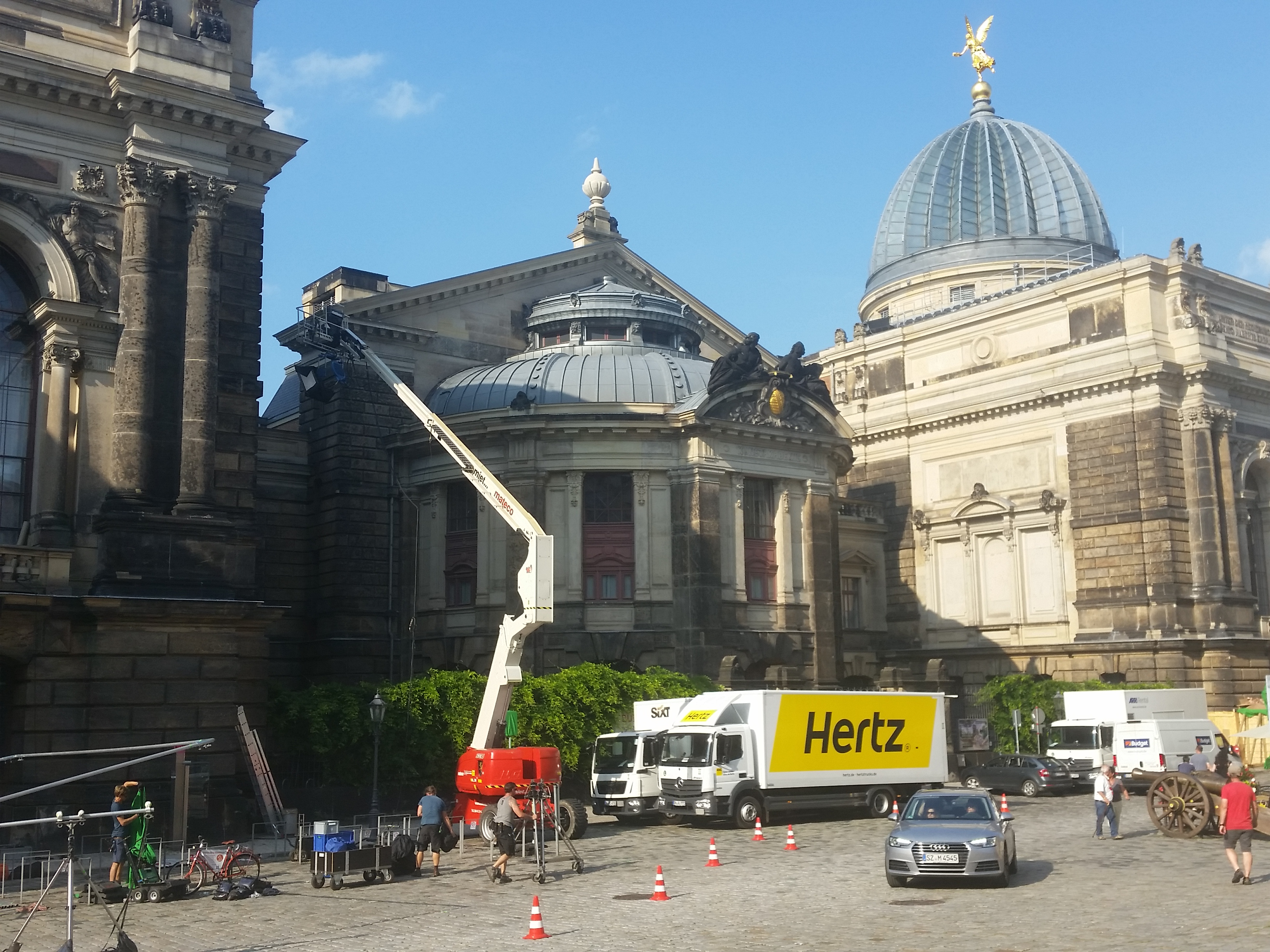 (After) the shooting of the movie "Werk ohne Autor" by Florian Henckel von Donnersmarck in Dresden. Set at the Hochschule für Bildende Künste Dresden.